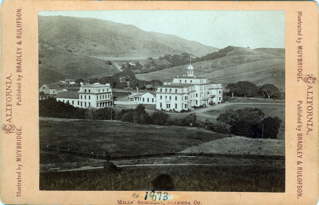 Eadweard Muybridge photograph of Mills College (Mills Seminary) circa 1873, with Mills Hall prominently featured.